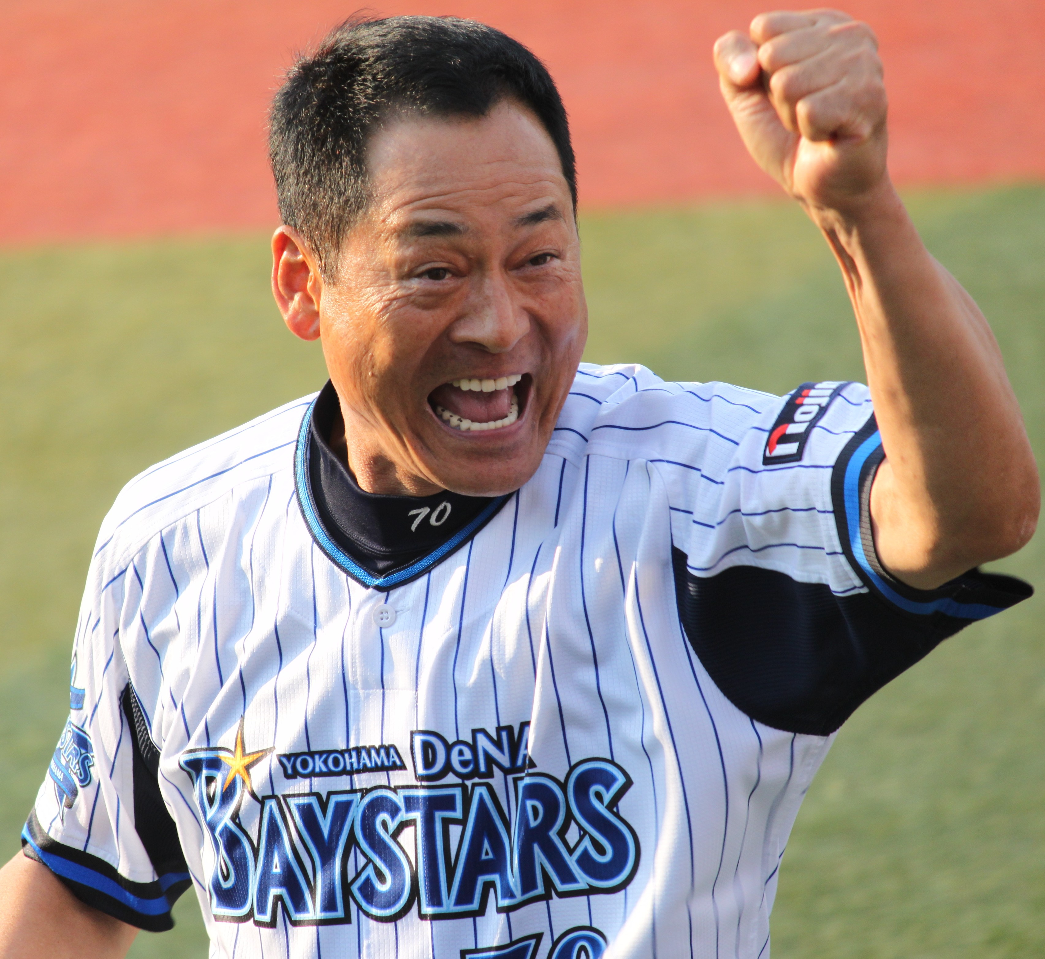 Kiyoshi Nakahata, manager of the Yokohama DeNA BayStars, at Yokohama Stadium.